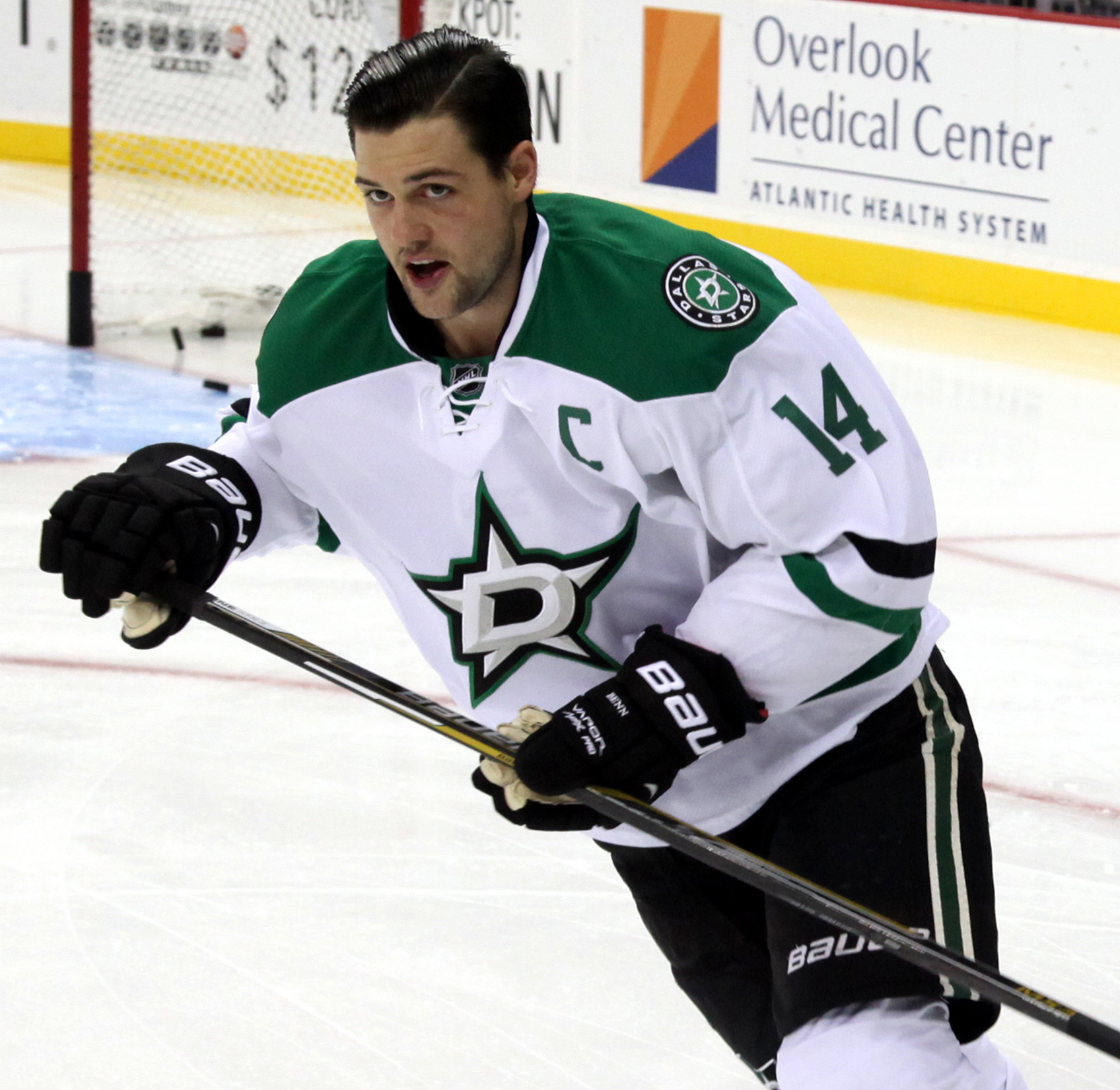 Dallas Stars and New Jersey Devils, October 24, 2014